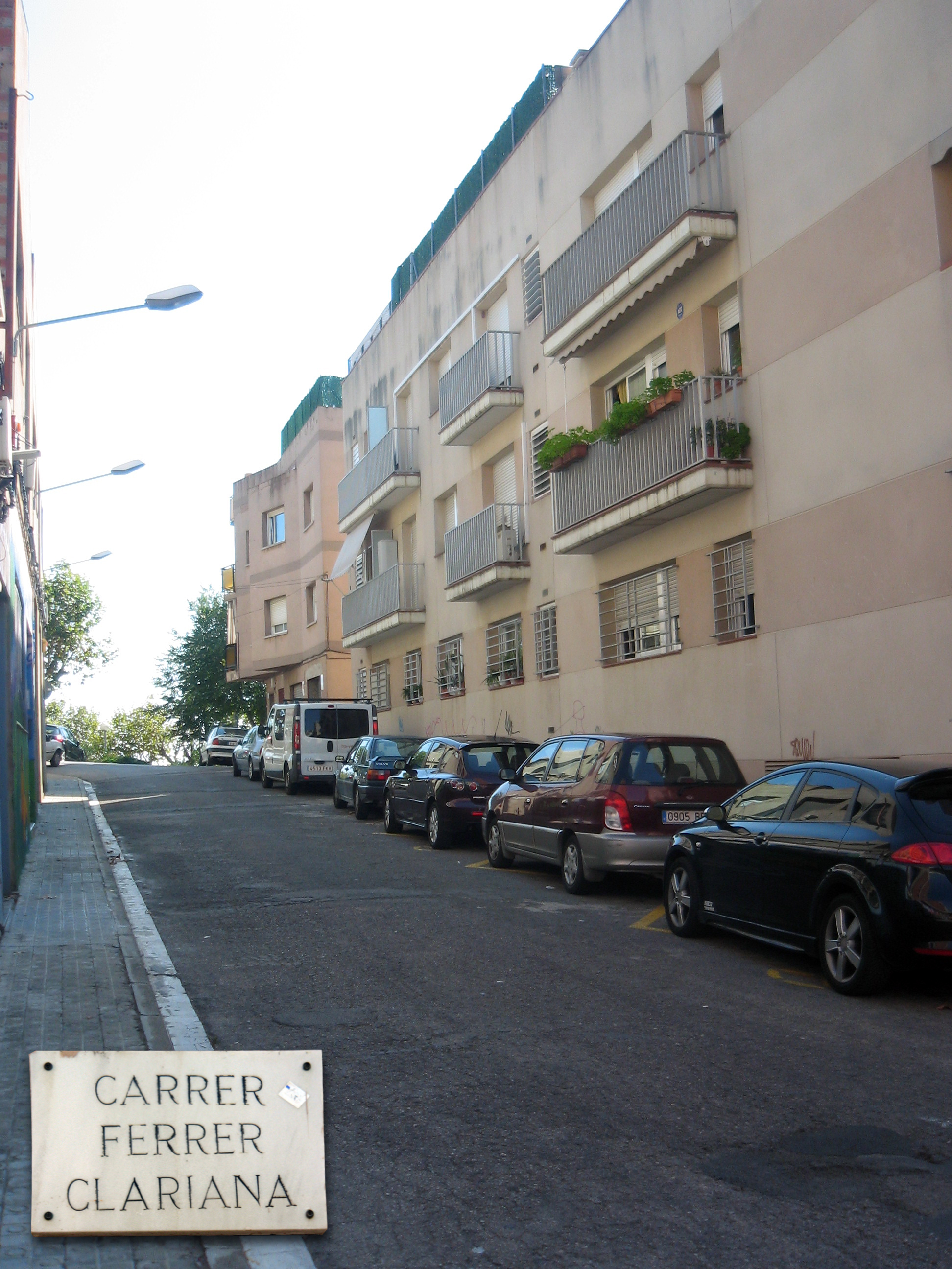 Ferrer i Clariana street, Mataró city (Barcelona)